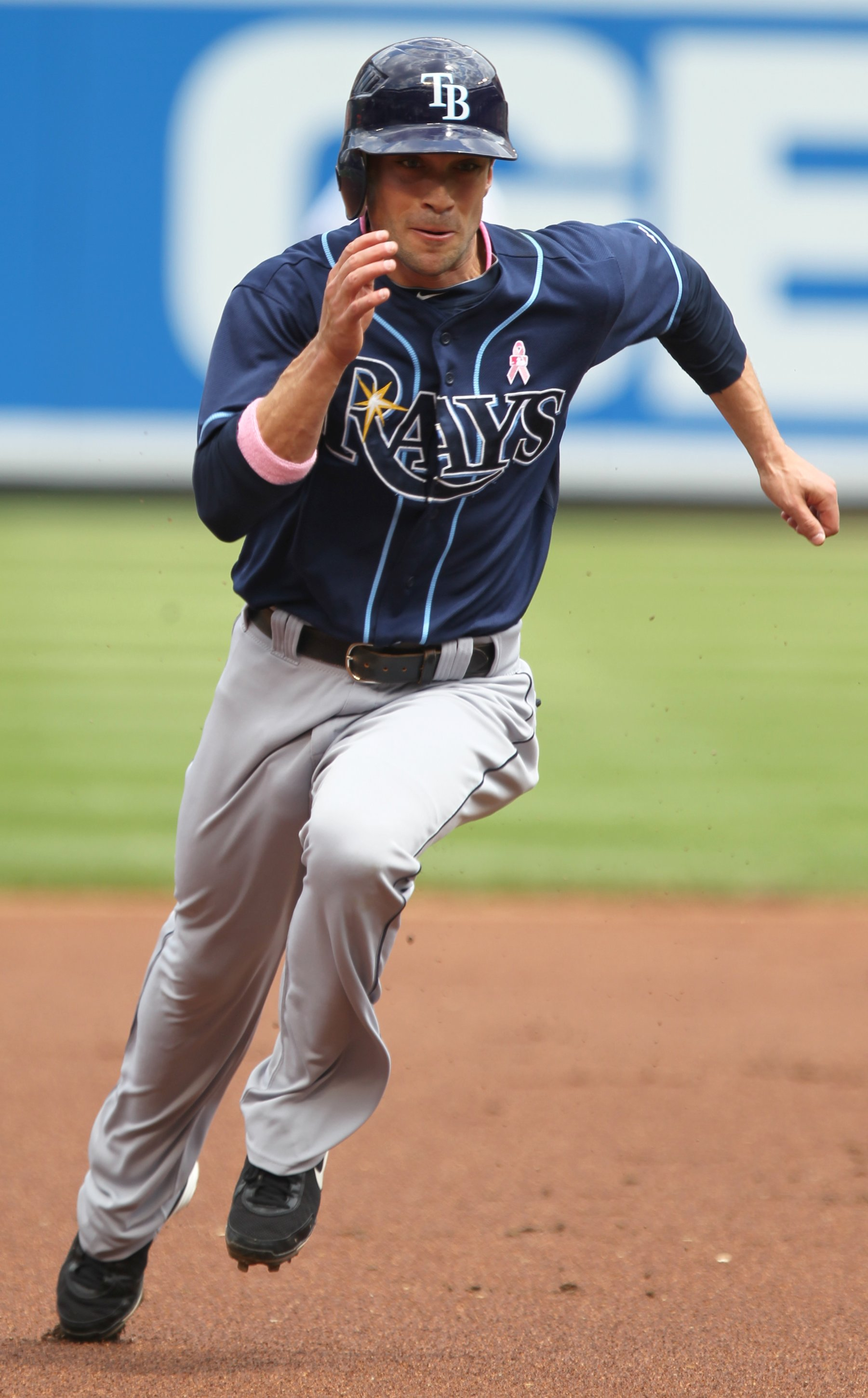 Tampa Bay Rays' Sam Fuld running